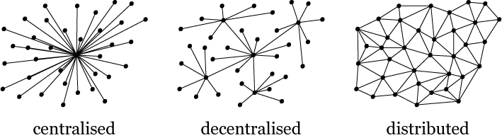 Made by myself